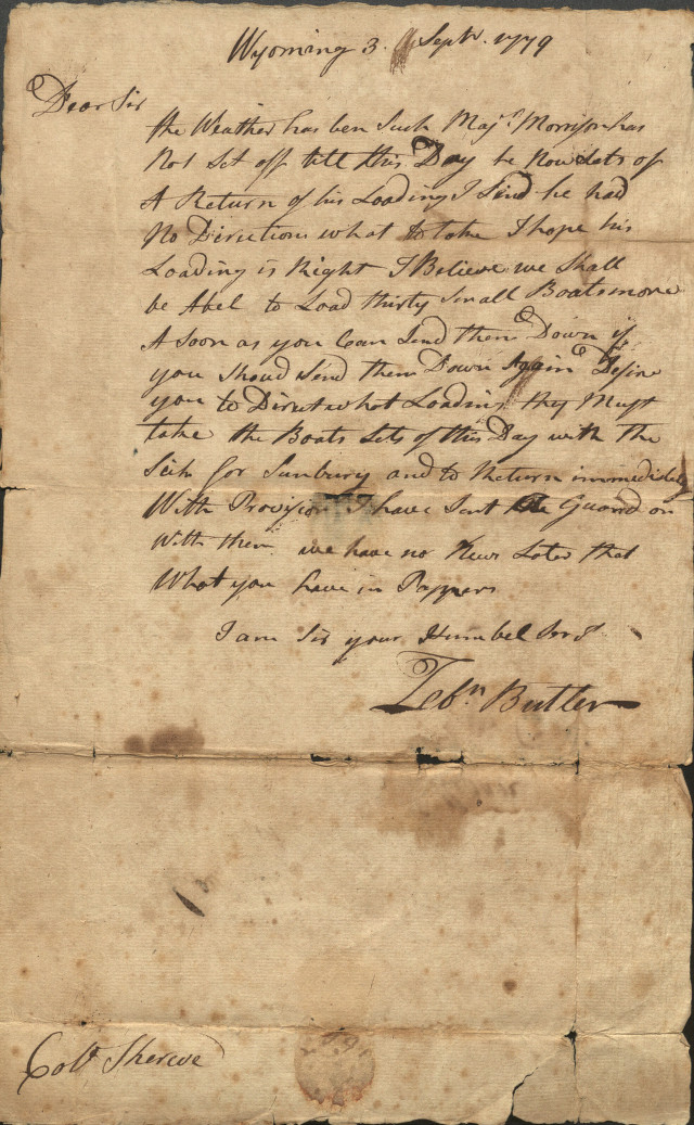 Correspondence from Colonel Zebulon Butler to Shreve on September 3, 1779. Sent from Wyoming [Valley].